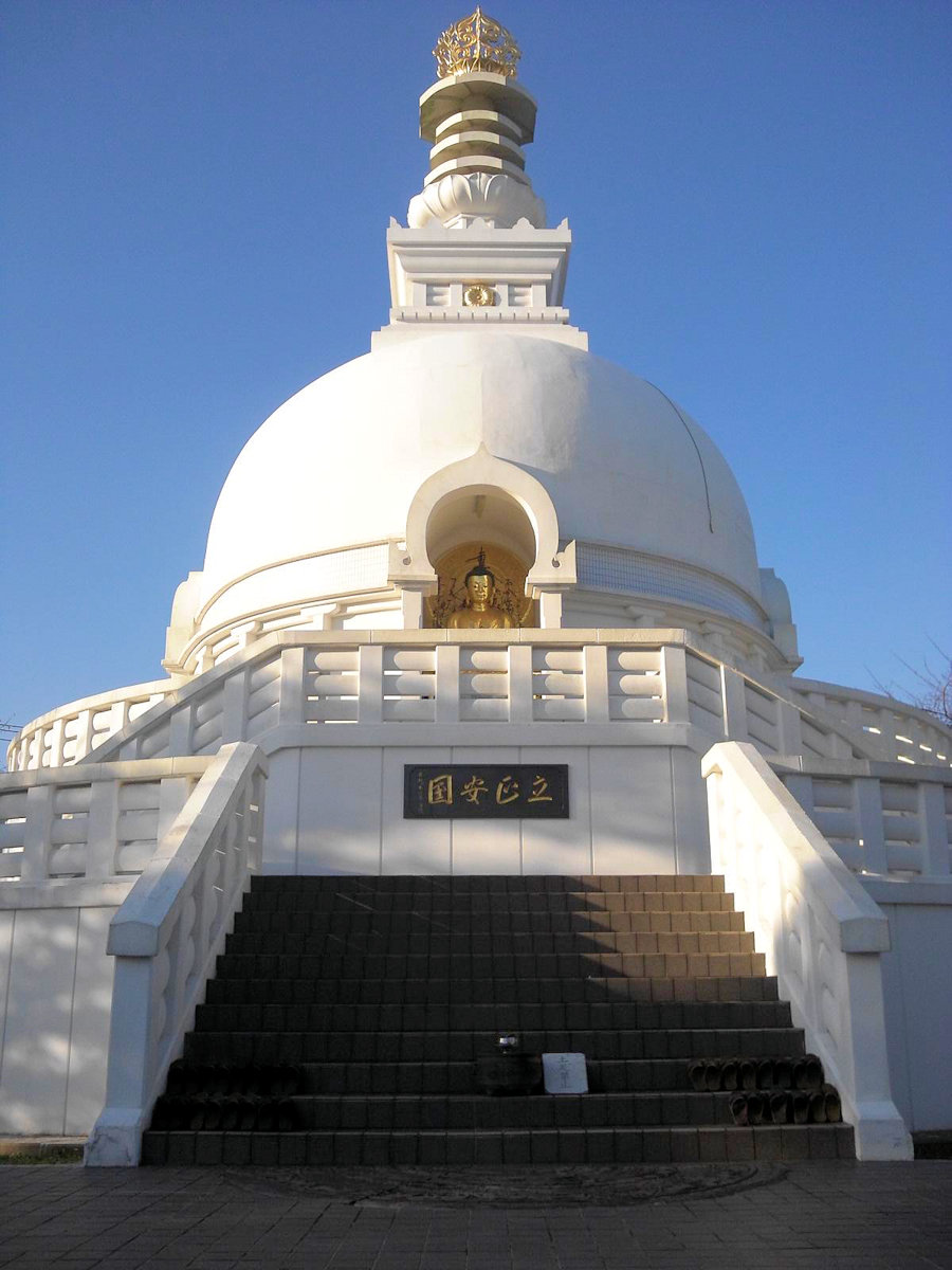 芝山町 成田平和仏舎利塔